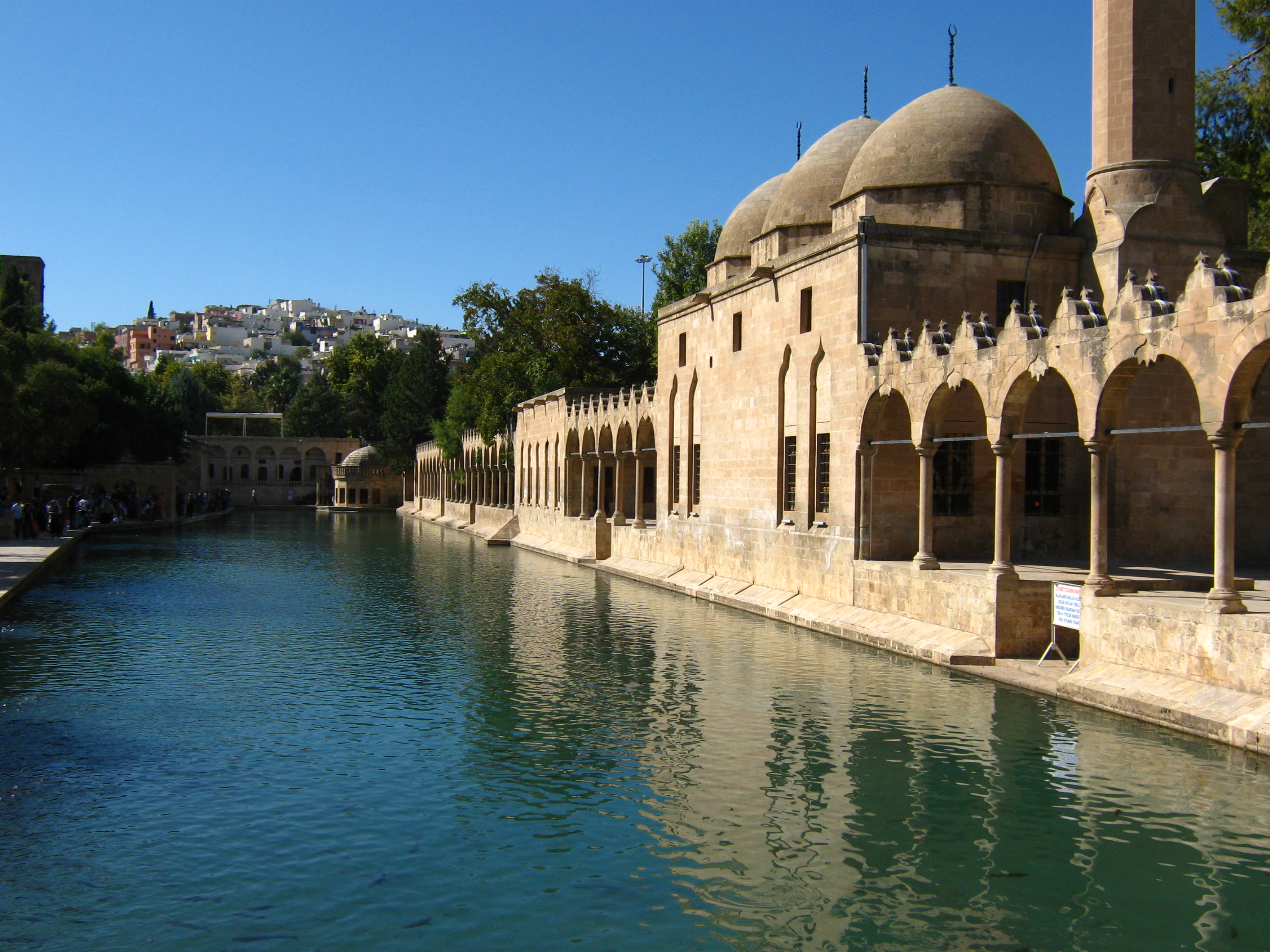 pond of the sacred fishes and Rızvaniye Mosque